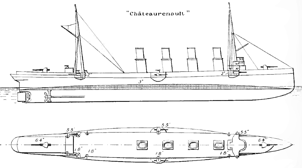 Sketch of the French protected cruiser Chateaurenault.